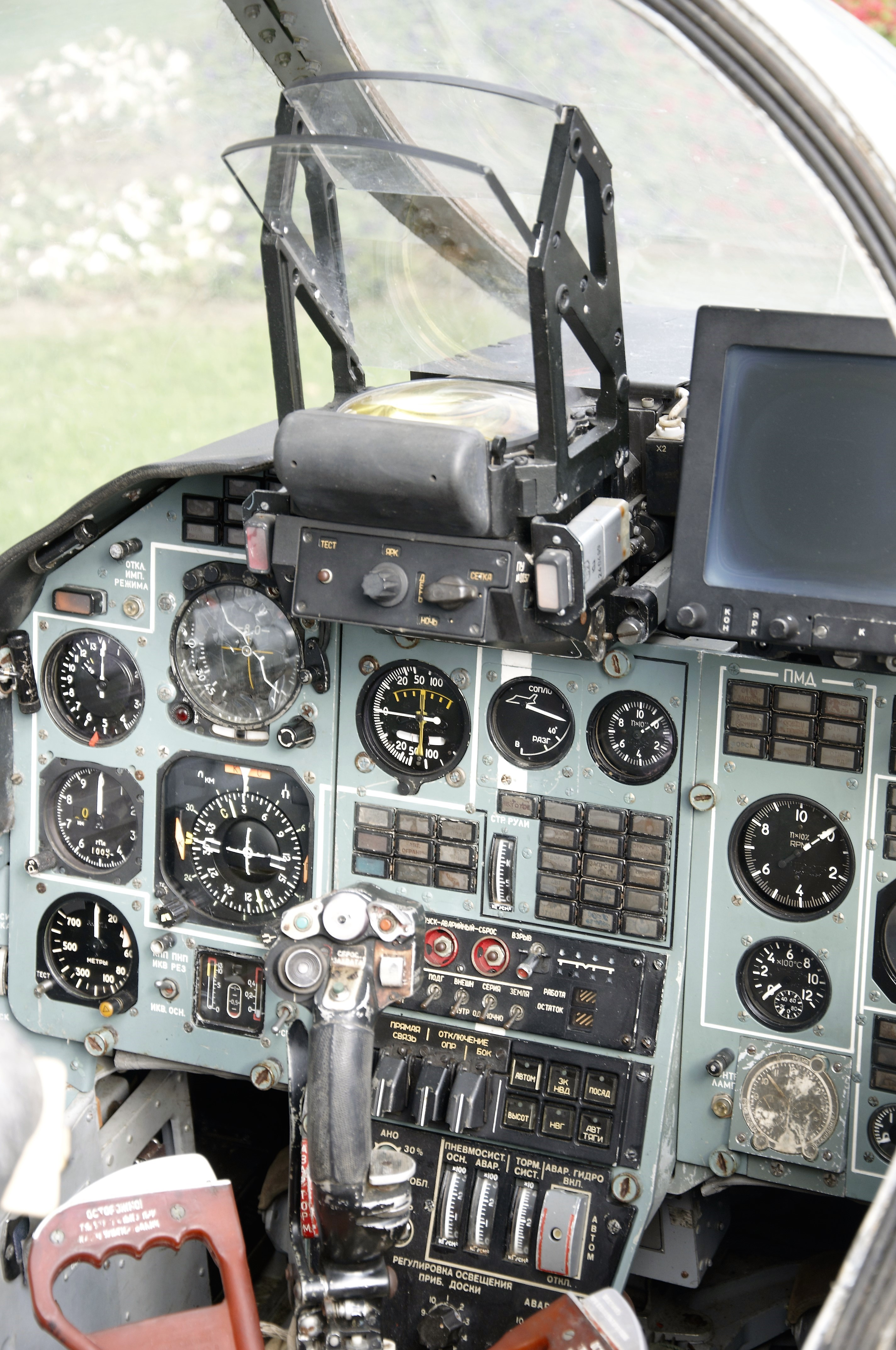 Сockpit Yak-141